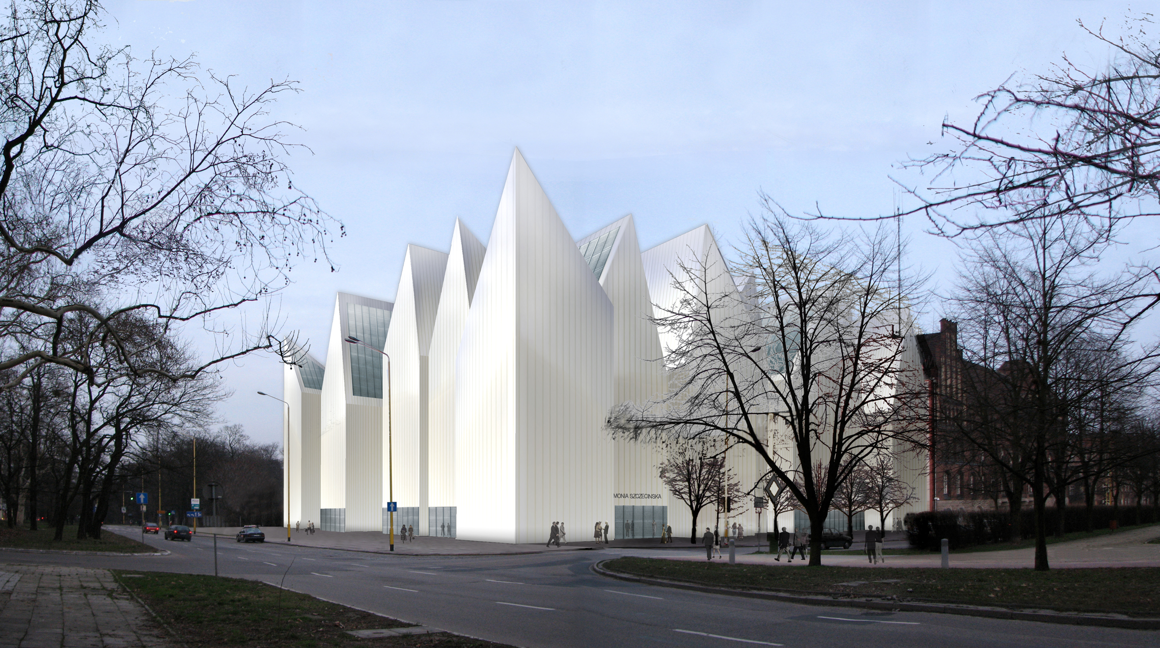 Model of the Szczecin Philharmony in daylight